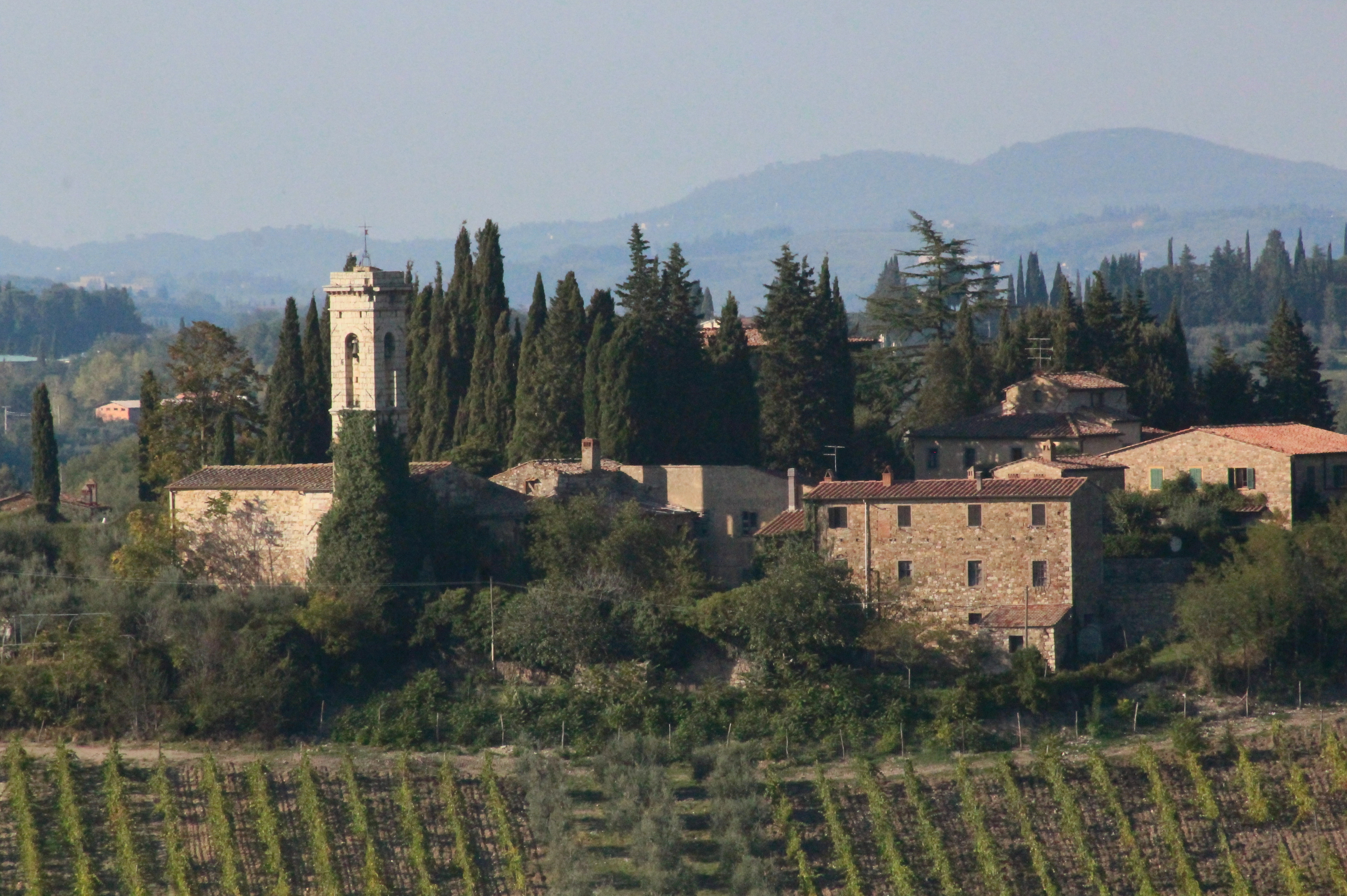 Cortine, village of Barberino Val d'Elsa, Comune in the Metropolitan City of Florence, Tuscany, Italy